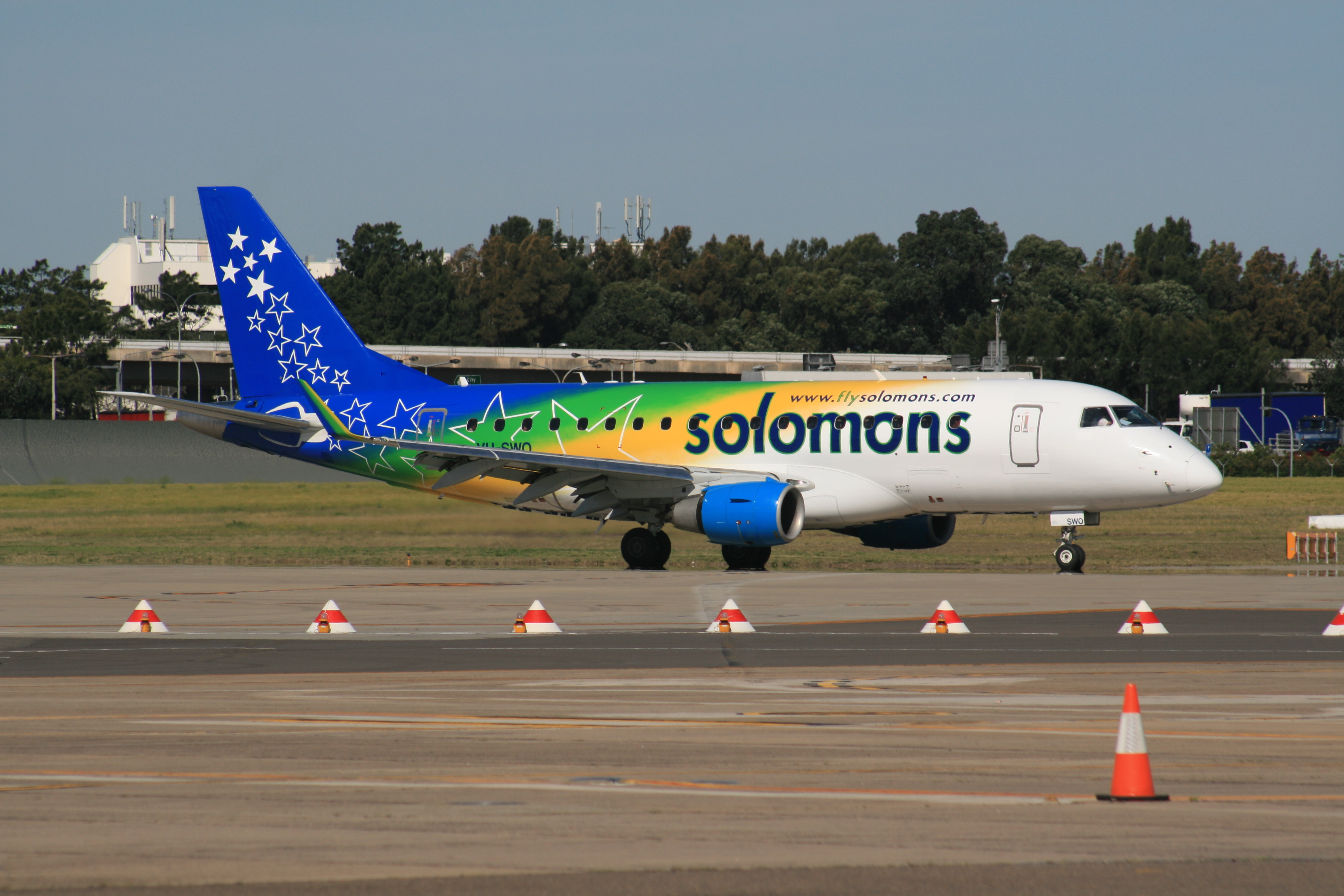 As of September 2007 SkyAirWorld have one EMBRAER ERJ-170 in service, which is painted in the colours of Solomon Airlines. It is seen here taxiing for departure from Sydney International Airport with a contingent of Royal Australian Air Force personnel on board.